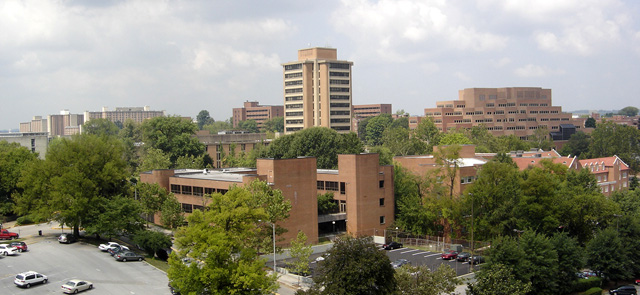 Aerial photo of the University of Tennessee Knoxville campus.